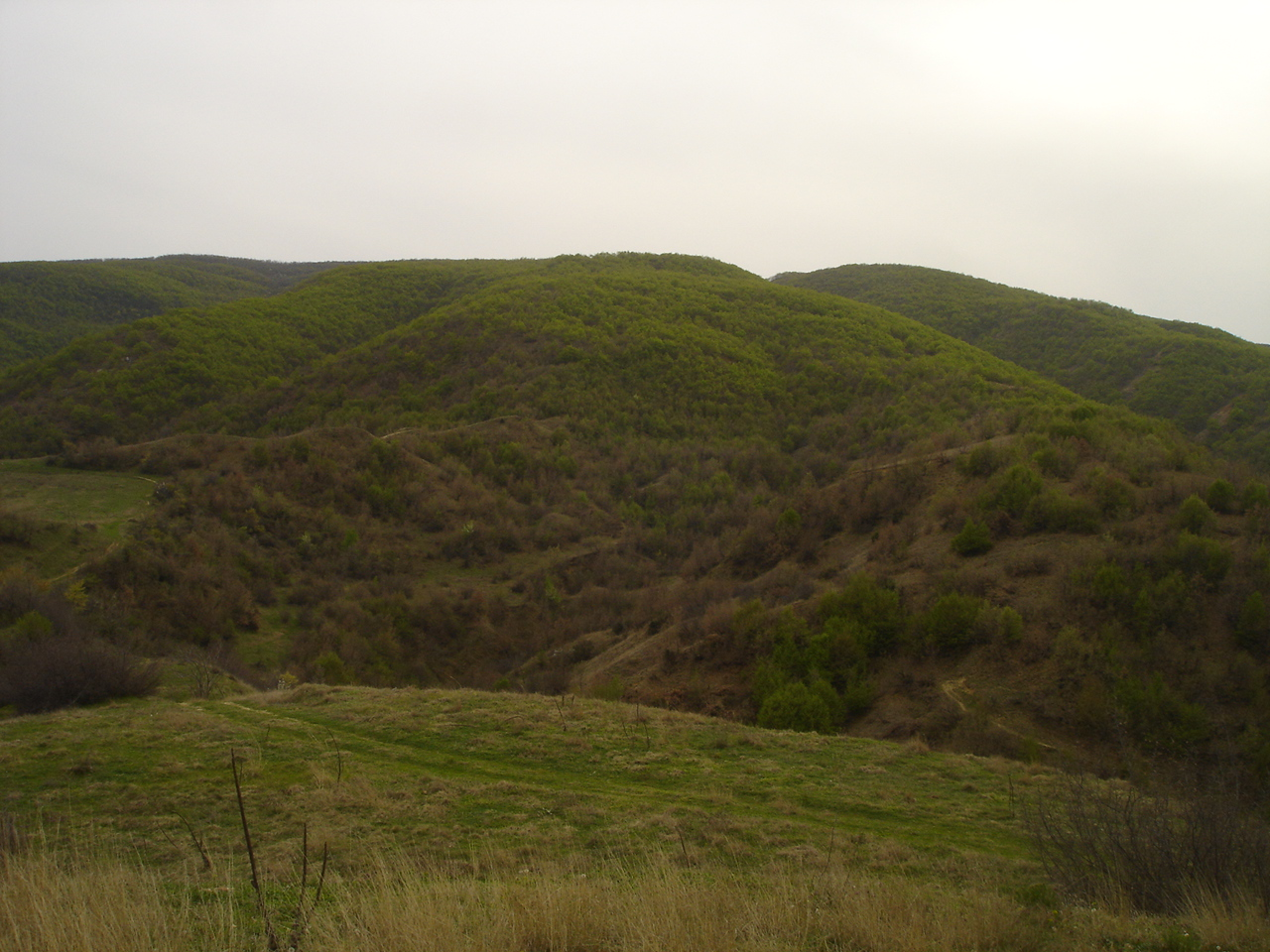 Northeastern slope of the mountain Smrdeš, Macedonia